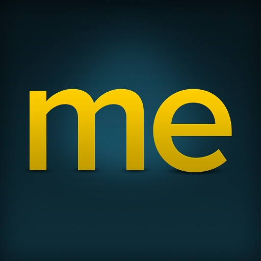 Icon for the about.me mobile app